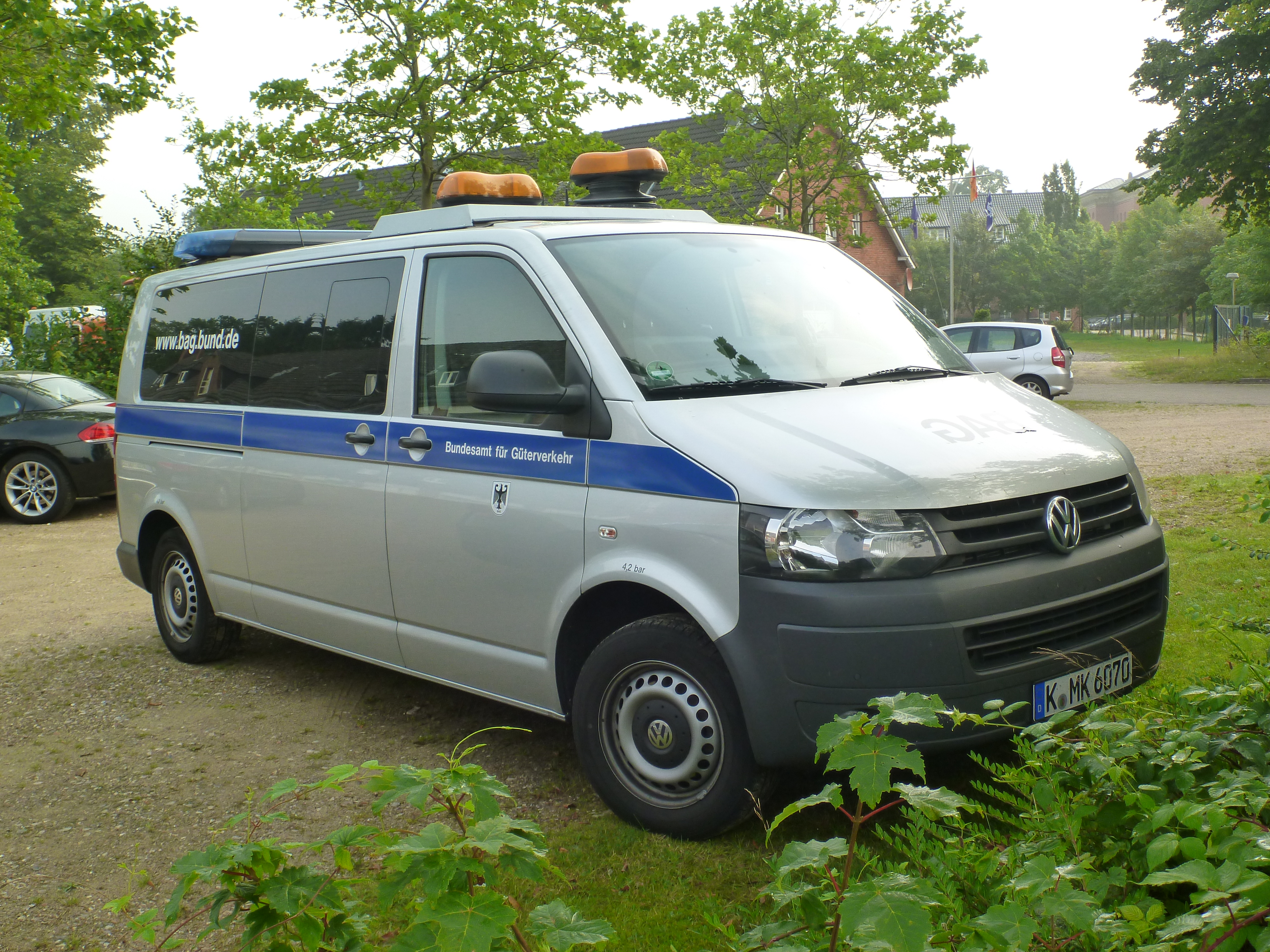 VW bus of the Bundesamt für Güterverkehr